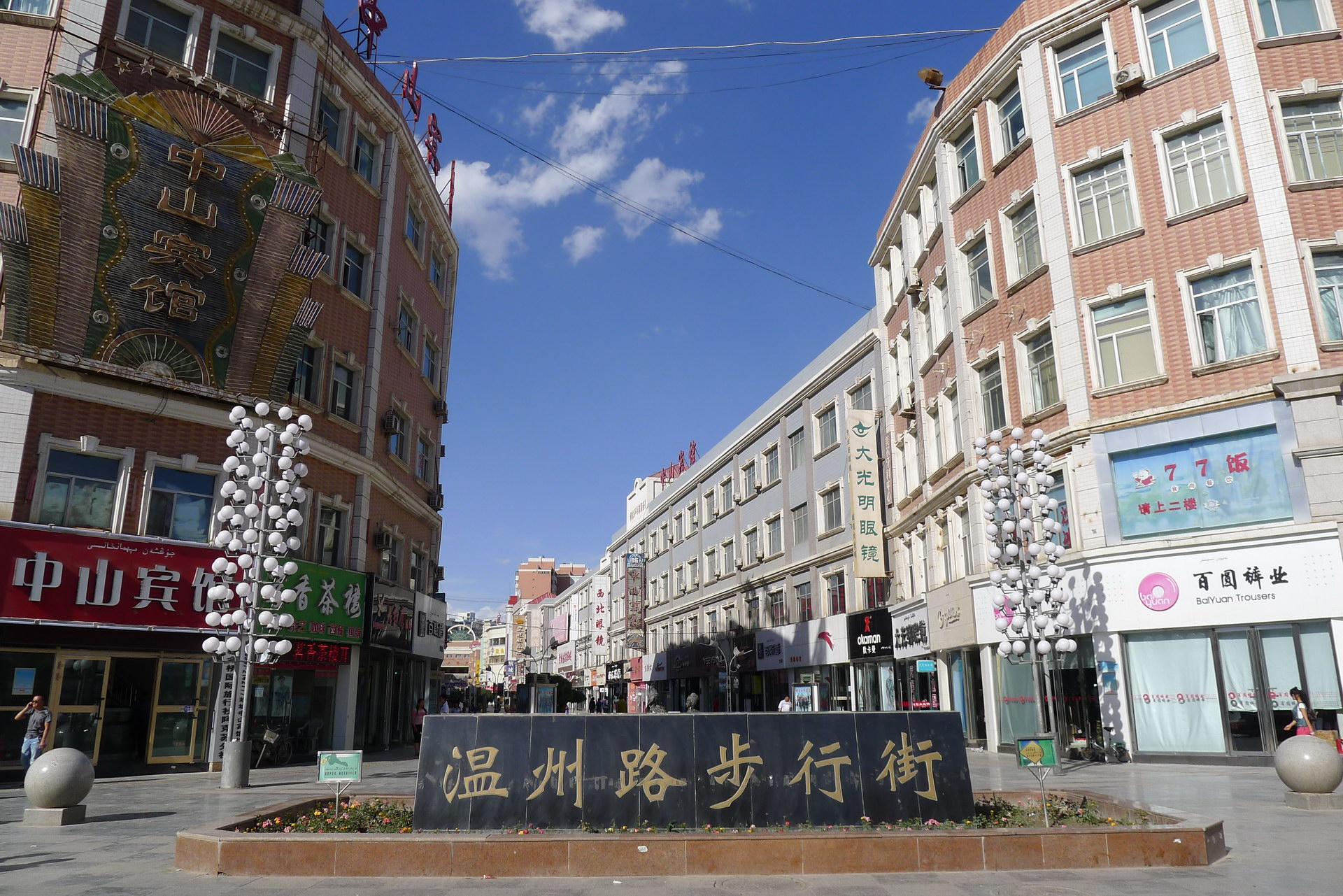 Wenzhou Road, the pedestrian street in Aksu